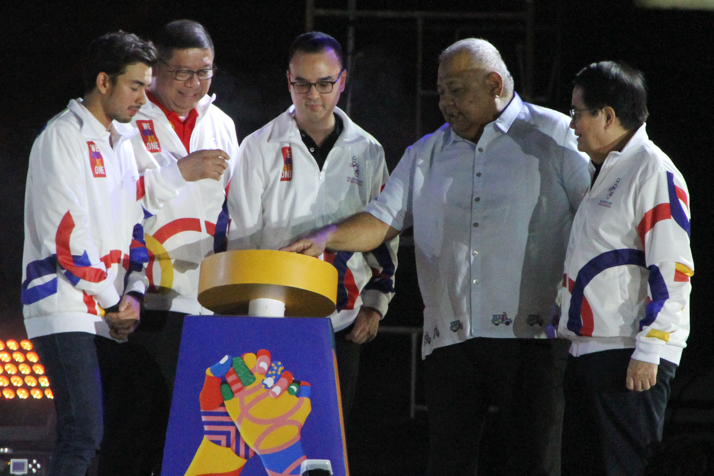 Executive Secretary Salvador Medialdea (second from right), representing President Rodrigo R. Duterte, leads the launching of the One year countdown to the 2019 Southeast Asian Games at the Bayanihan Park in Clark, Pampanga on Friday (Nov. 30, 2018). From left are Philippine Olympic Committee (POC) Athletes Commission chairman Nikko Huelgas, Philippine Sports Commission chairman William 'Butch" Ramirez, Philippine SEA Games Organizing Committee (PhilSoc) chairman Allan Peter Cayetano, Medialdea and POC president Ricky Vargas.